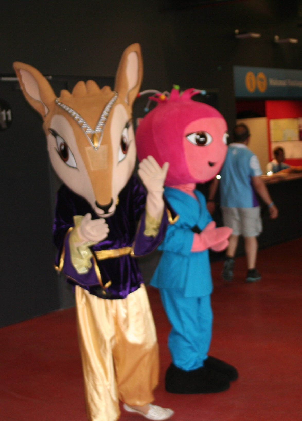 Mascots of European Games 2015